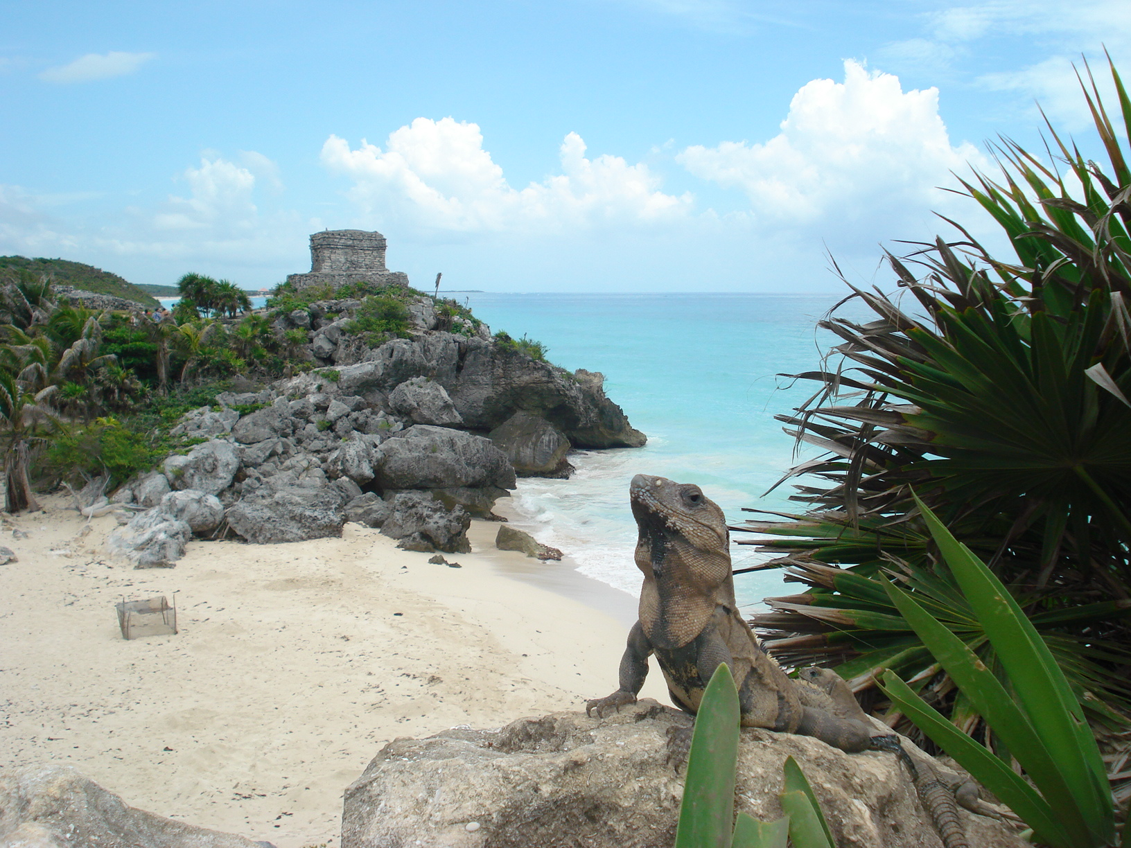 Beautiful beach in the Mayan riviera